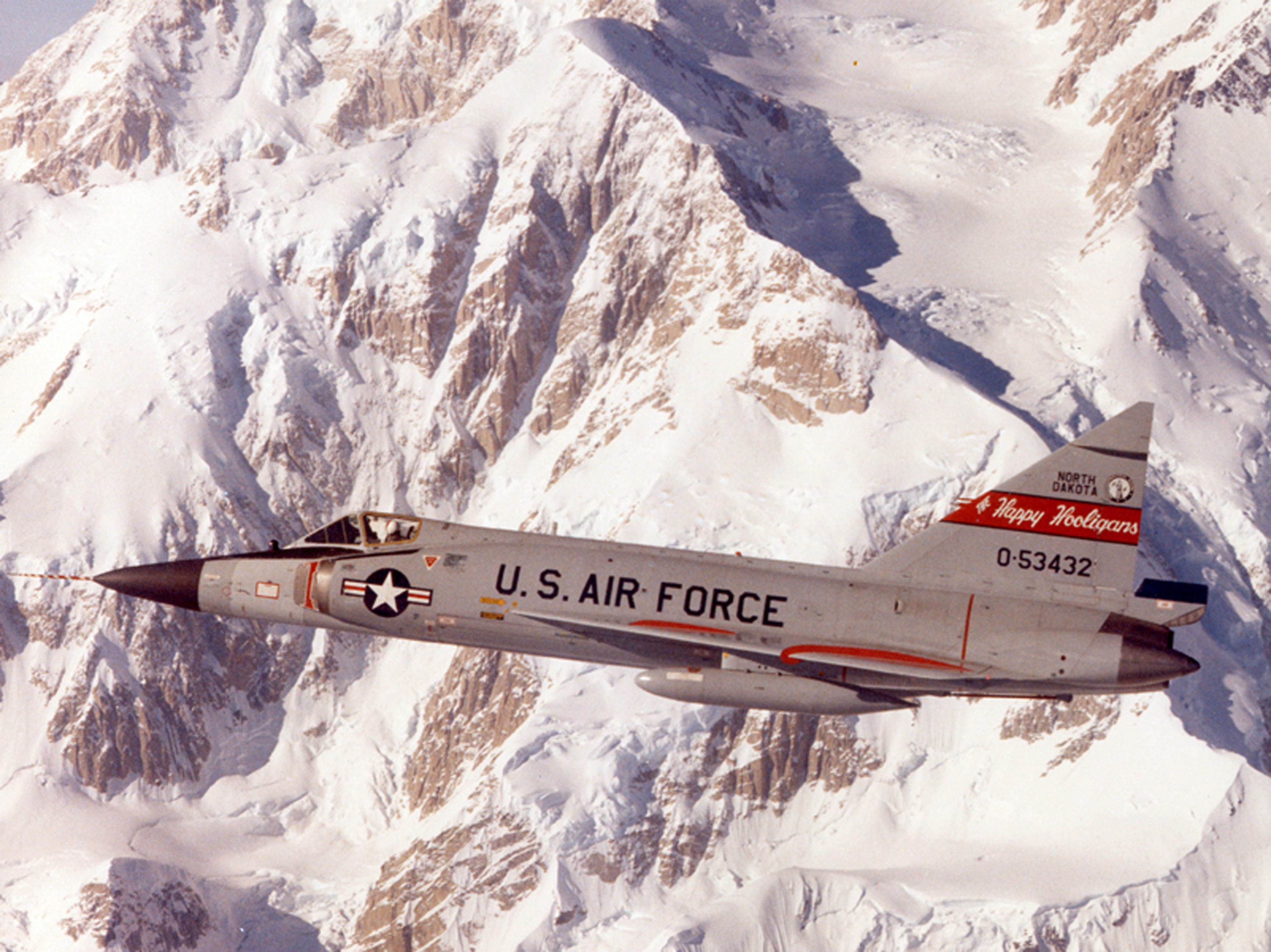 A U.S. Air Force Convair F-102A-50-CO Delta Dagger fighter (s/n 55-3432) from the 178th Fighter-Interceptor Squadron, 119th Fighter Group, North Dakota Air National Guard, in flight. The North Dakota Air National Guard flew the F-102 from 1966–1969. This aircraft was retired in 1969 and is today on display at Fargo, North Dakota (USA).